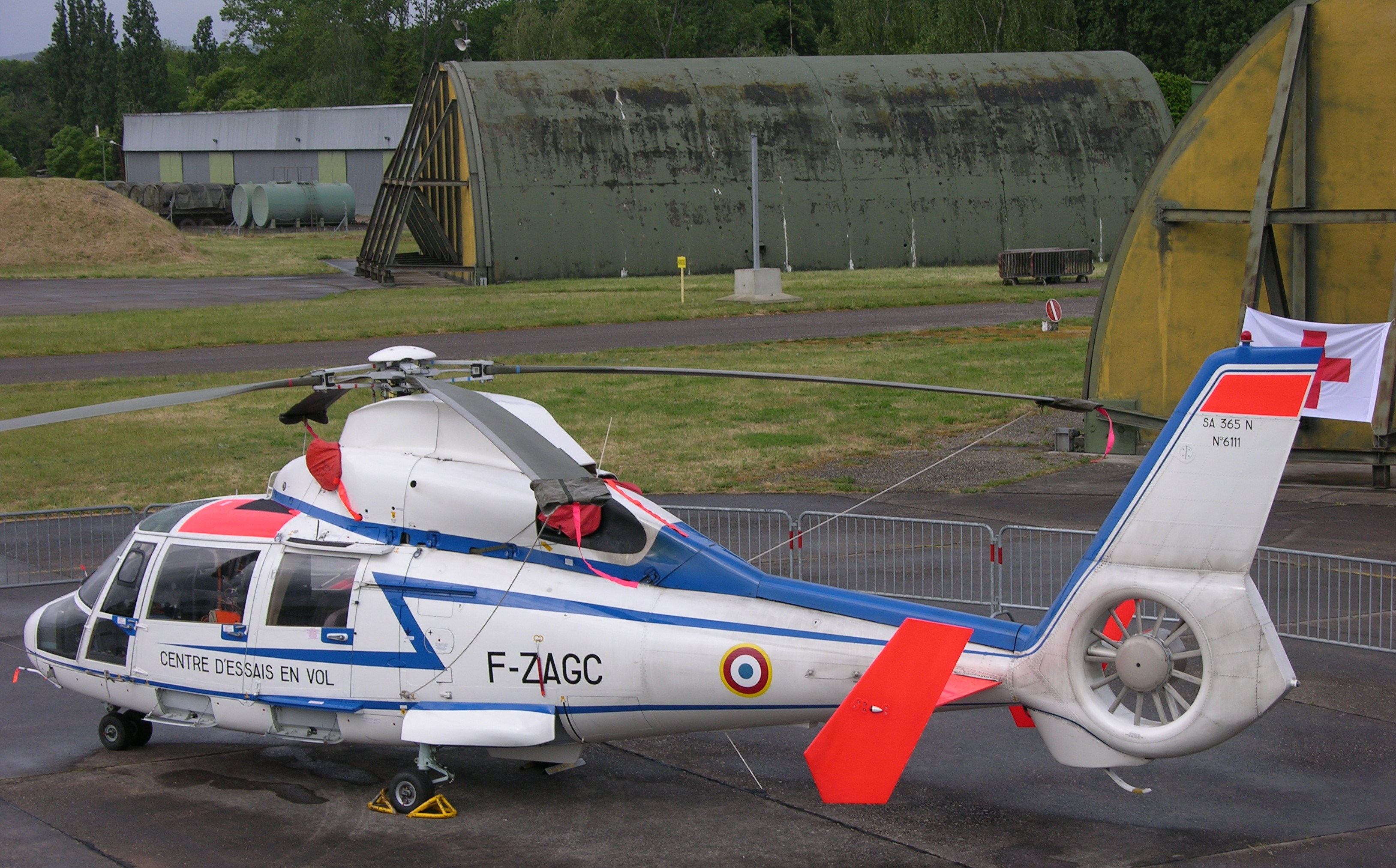 Aerospatiale SA.365N Dauphin, of Centre d'Essais en Vol, the French test Centre, was on display at Metz Frescaty Air Base in France in May 2007 at a display to celebrate the helicopter.